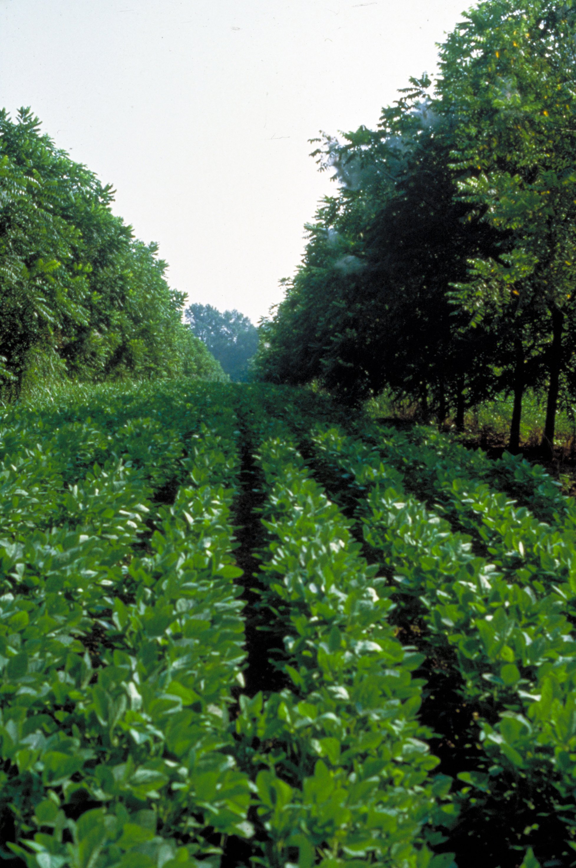 Walnut trees and soybeans Alley Cropping Page - NAC website